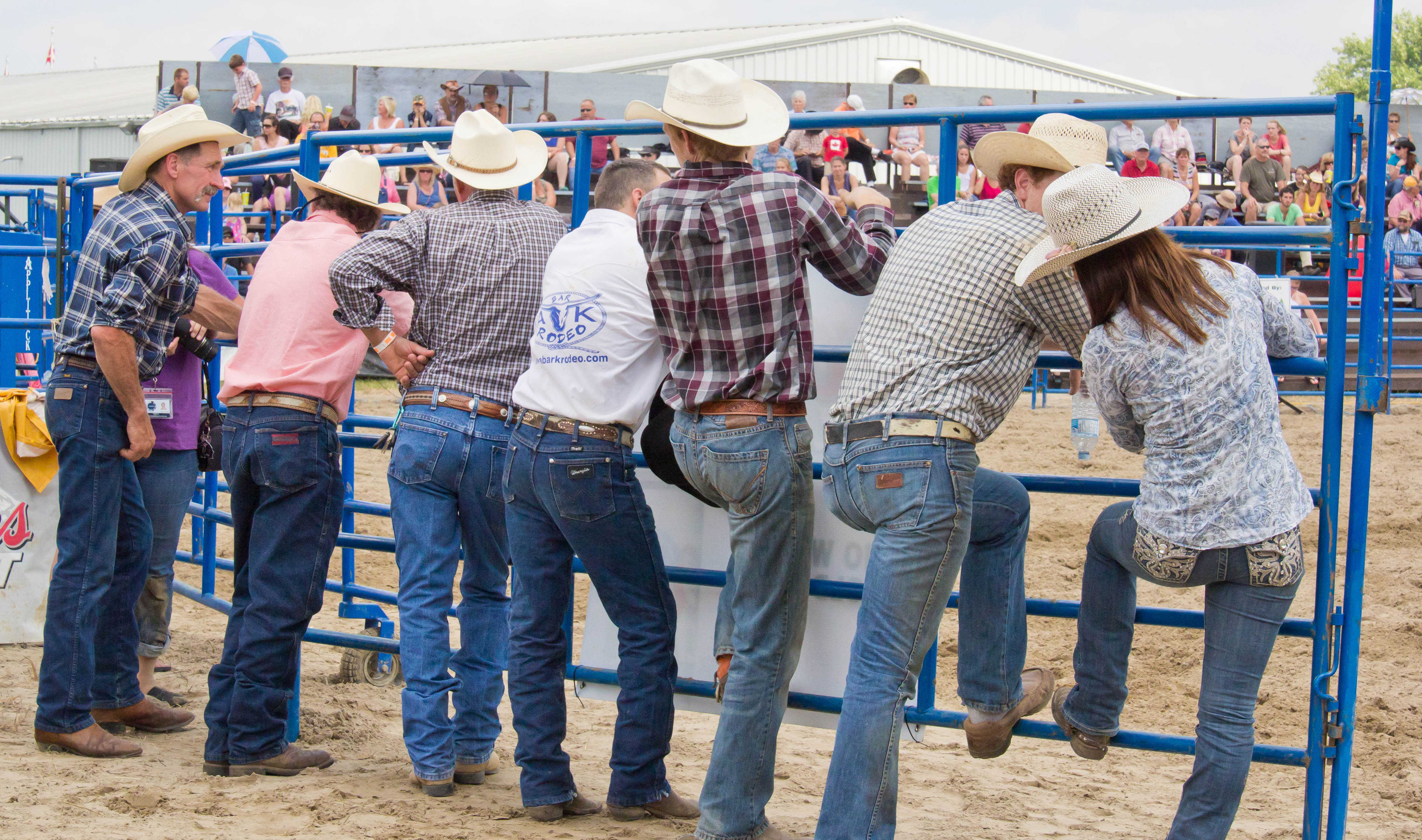 Spencerville Stampede, July 2014